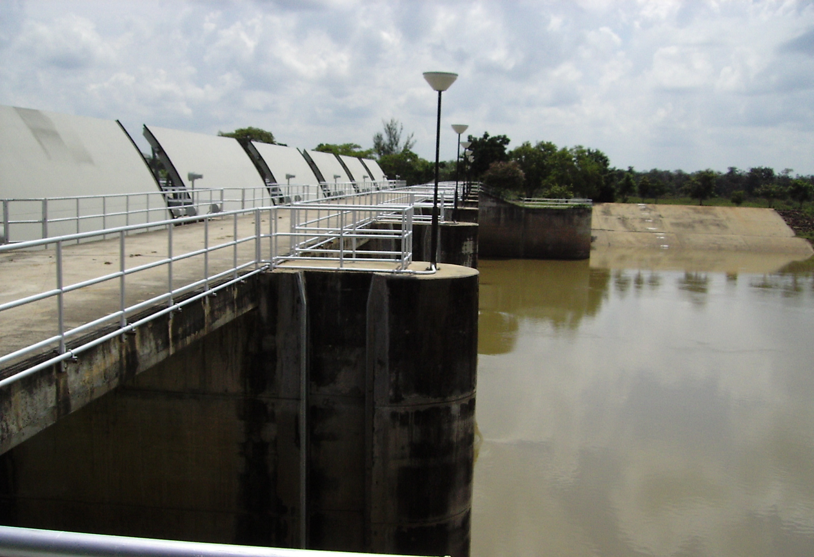 Fai Rasi Salai gates